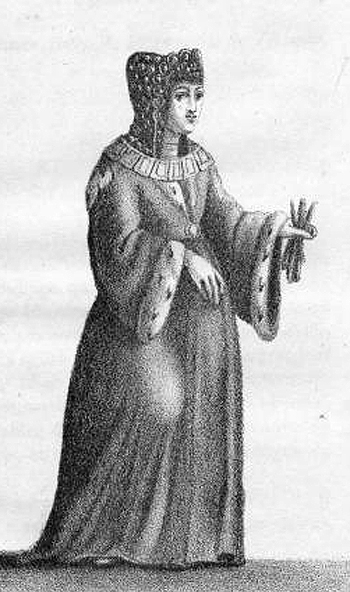 Adelaide of Burgundy